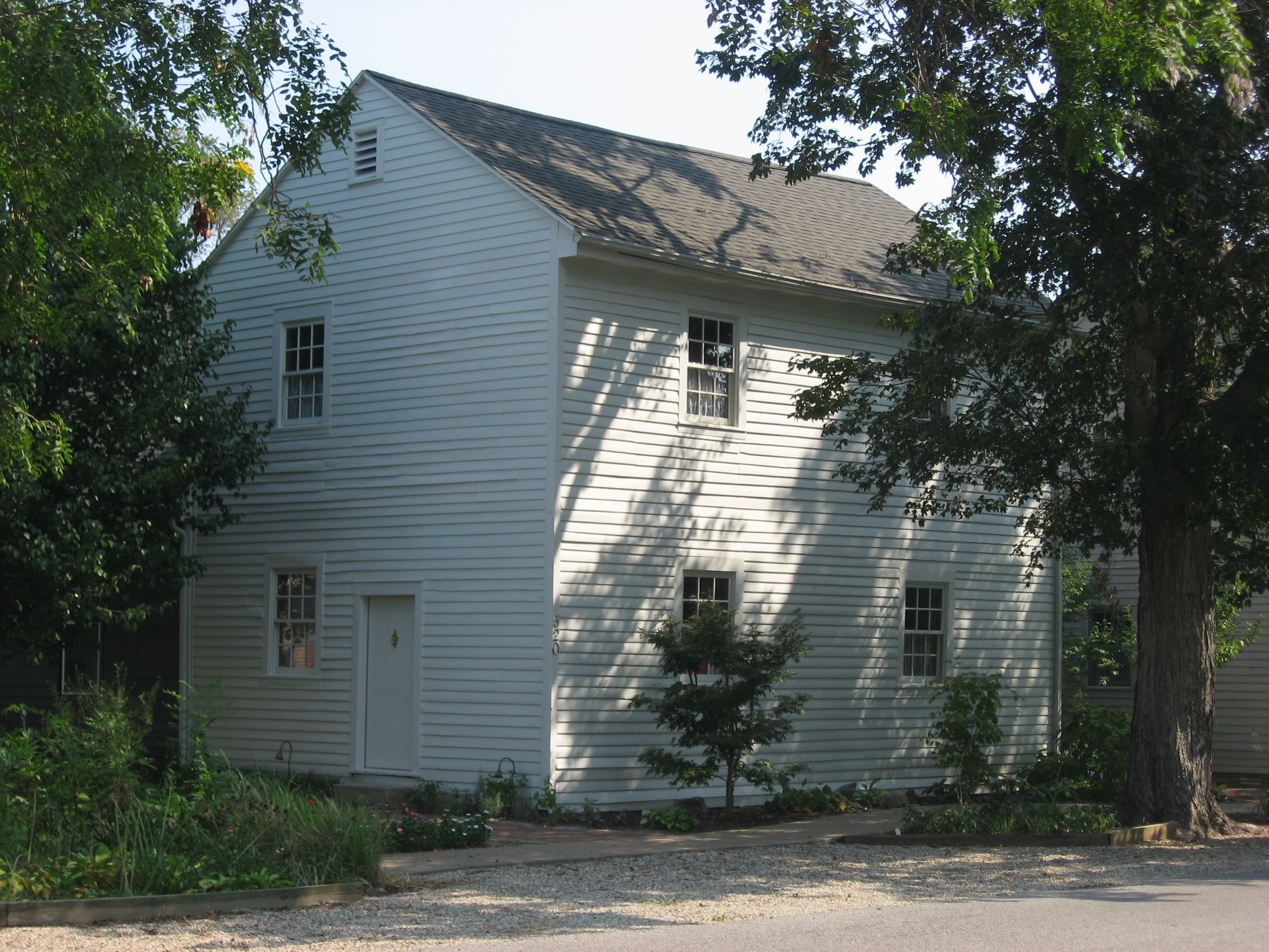 Front of the Ludwig Epple House, located at 520 Granary Street in New Harmony, Indiana, United States. Built in 1823, it is listed on the National Register of Historic Places, and it is part of the New Harmony Historic District, a National Historic Landmark District.